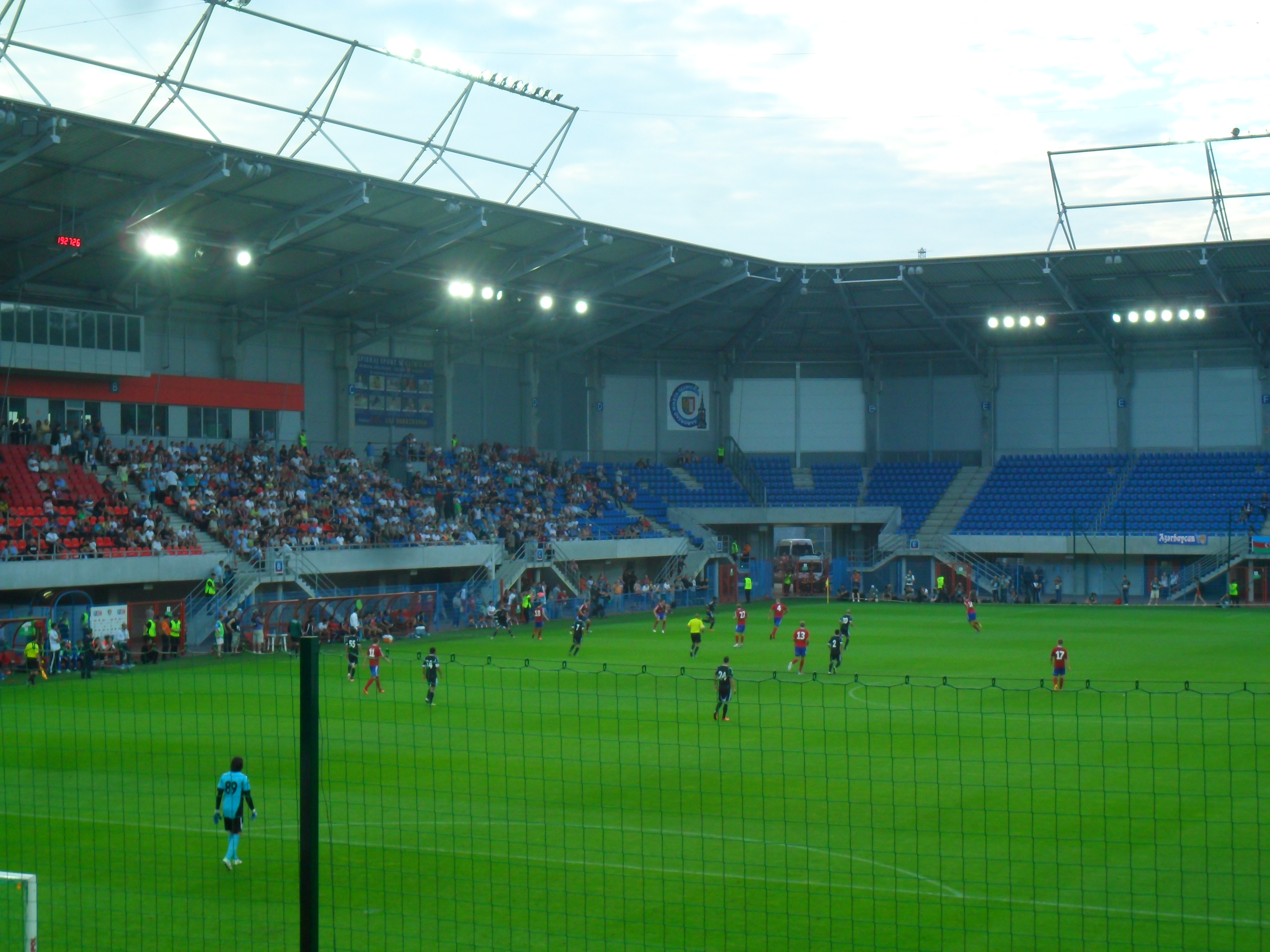 Piast Gliwice – Qarabağ Ağdam, 25.07.2013, 2013–14 UEFA Europa League qualifying phase second round match, score: 2:2 after e.t. (promotion to next round for Qarabağ Ağdam)